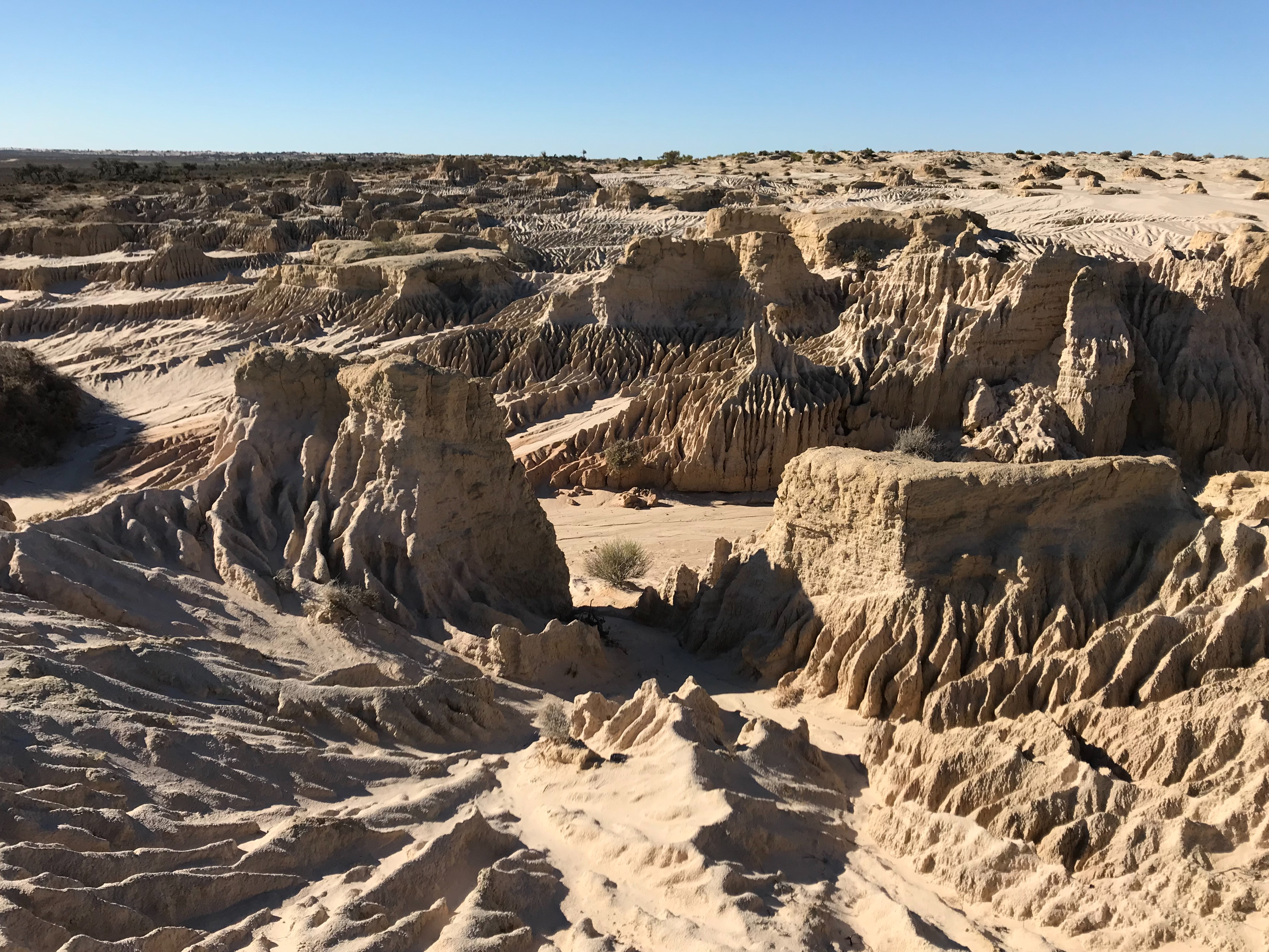 A section of Lake Mungo's lunette